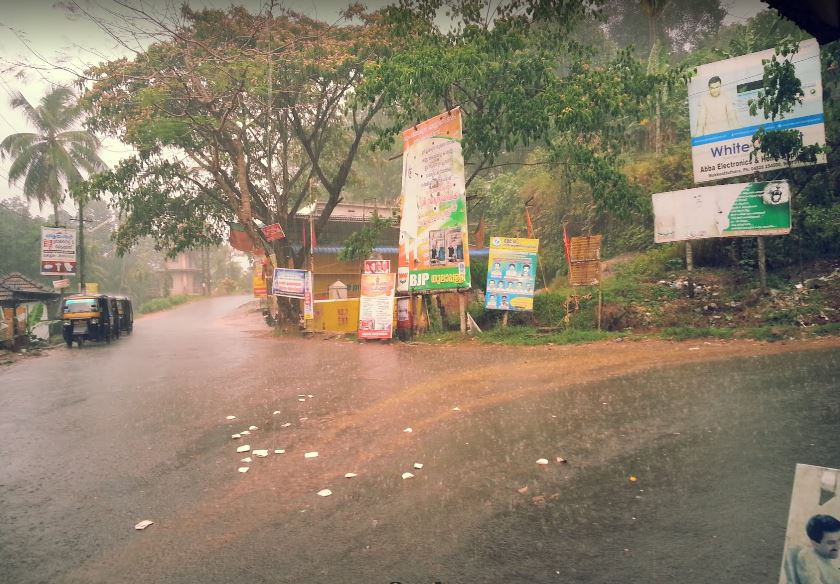 Rainy Day of Thulappay Jn